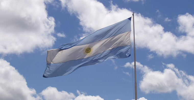 Picture of an Argentine flag in Tigre, Buenos Aires, summer 2004/2005.